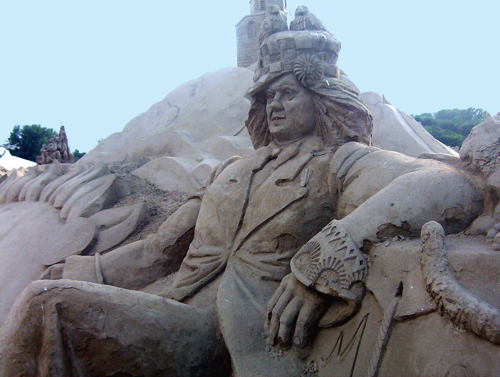 A sand sculpture of Oleg Popow, the famous clown